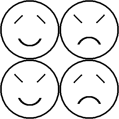 Four simple smiley-like emoticons representing the four temperaments (choleric, melancholic, phlegmatic and sanguine), by the tilt of the eyes and the curve of the mouth. These two features seem to represent high/low energy, resp. positive/negative humours. I created the graphics file myself, but I do not know the source of this idea. As the four temperaments may not be represented absolutely convincingly by these four figures, their merit lies in their simplicity. If you can improve on these four figures without compromising their simplicity, please do so and replace my file!